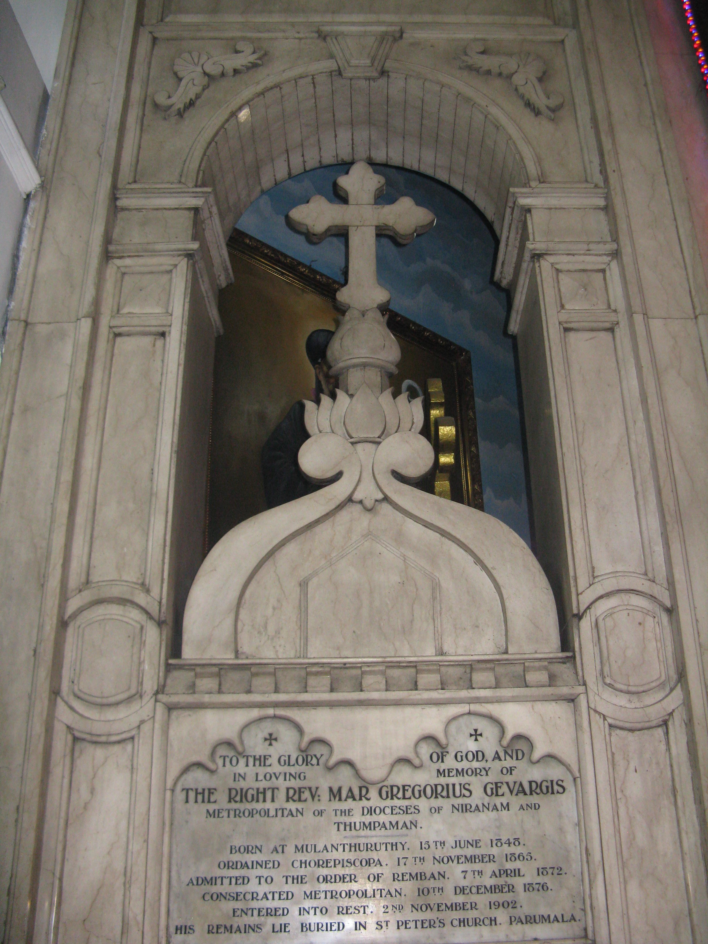 Tomb of St.Gregorios of Parumala (at St.Peters and St.Pauls Orthodox Church, Parumala,Kerala)